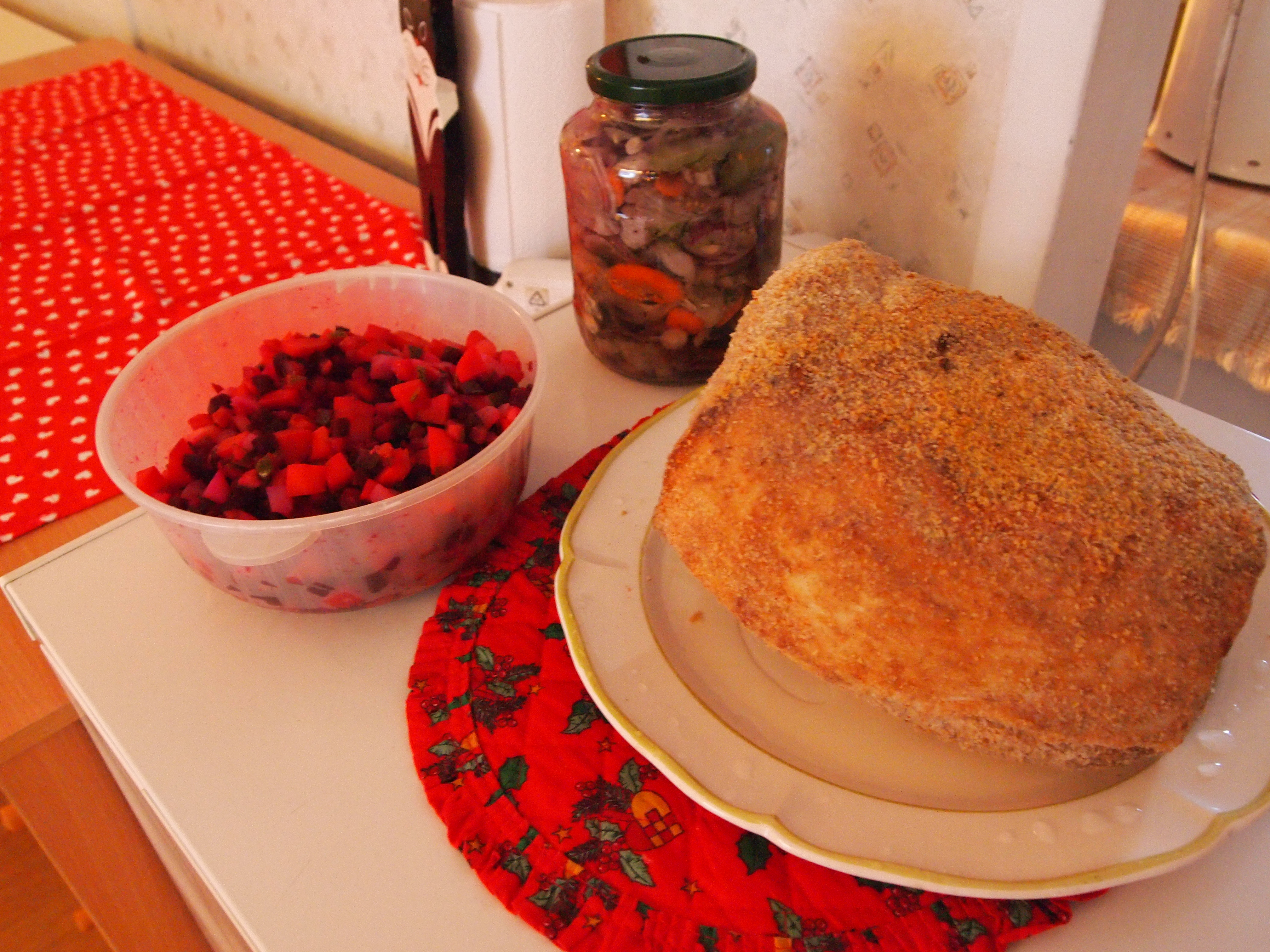 Christmas foods